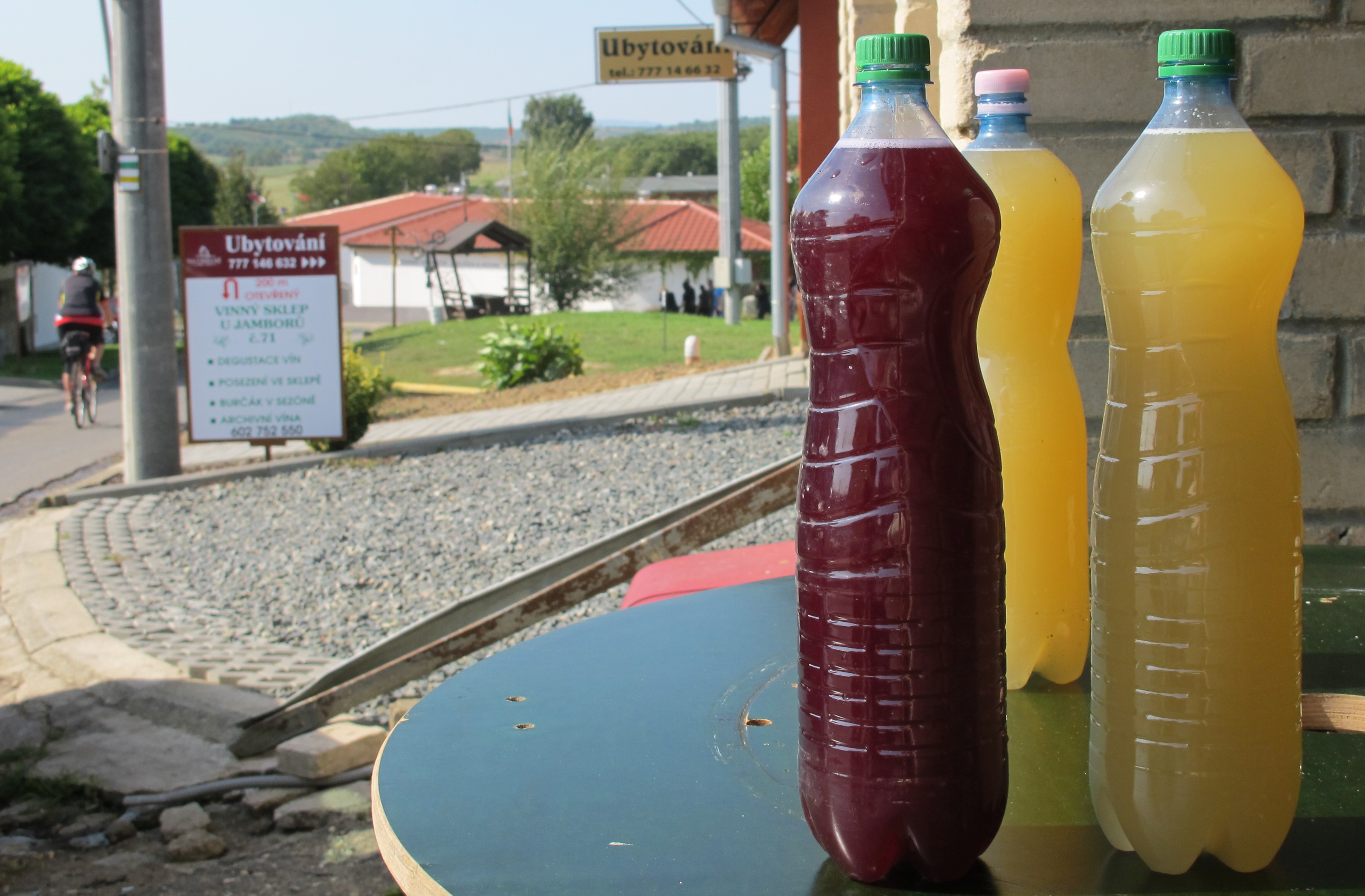 Federweisser in Bořetice in Břeclav District, Czech Republic